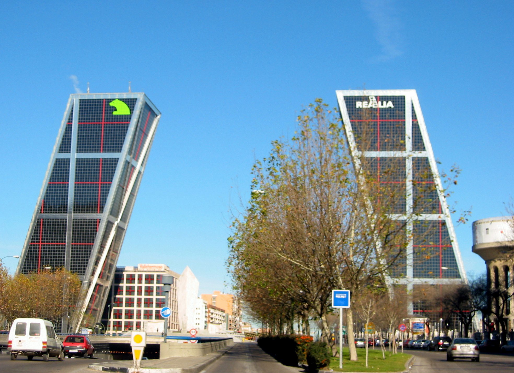 View of the Plaza de Castilla (square) from Paseo de la Castellana (an avenue) in Madrid (Spain). In the background, Puerta de Europa buildings.